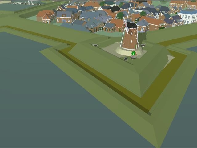 Welgemoed Bredevoort